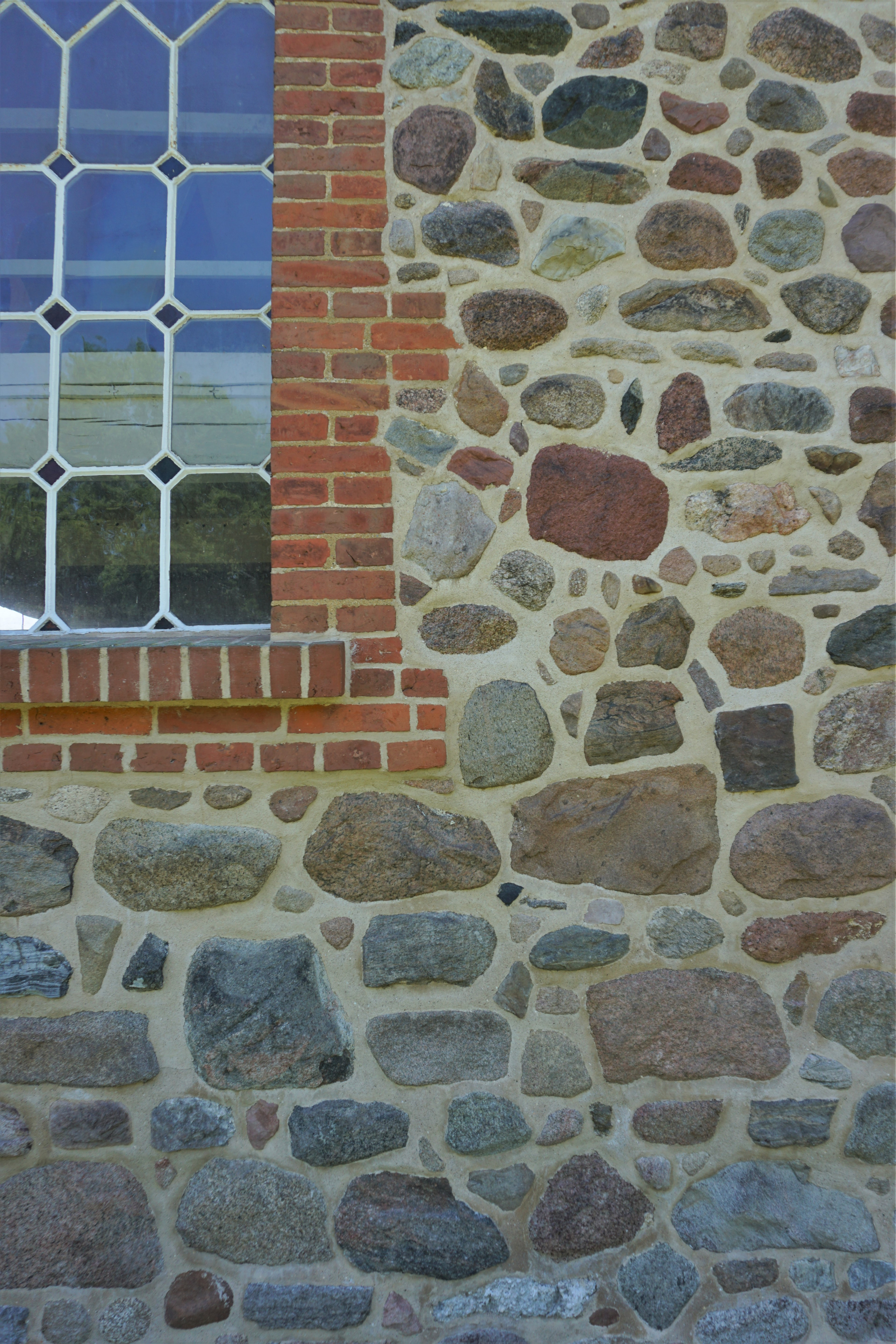 Fieldstone masonry of the northern facade of the St. Peter's Church in Wendhausen in the municipality of Reinstorf in the district of Lüneburg.